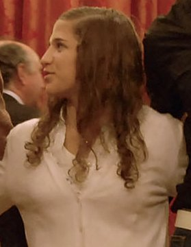 Argentina President Cristina Fernández receives olympic medalists in the Pink House. From left to right: Carlos Espínola, Santiago Lange, Noel Barrionuevo, President, Paula Pareto, Wálter Pérez, Juan Curuchet, Juan Román Riquelme.